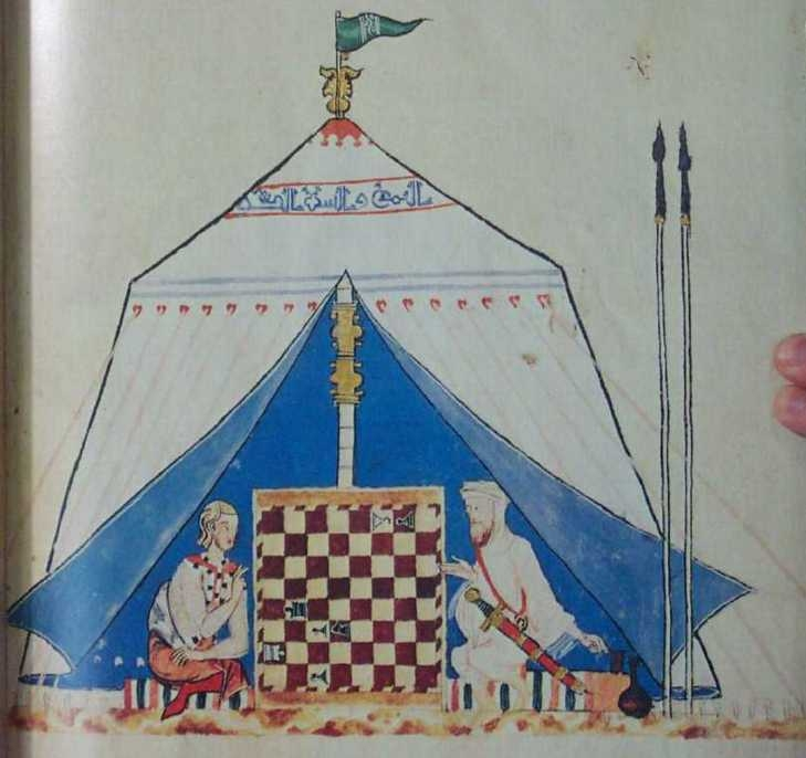 A picture from the book of Alfonso X (European or Christian playing chess with Moor).